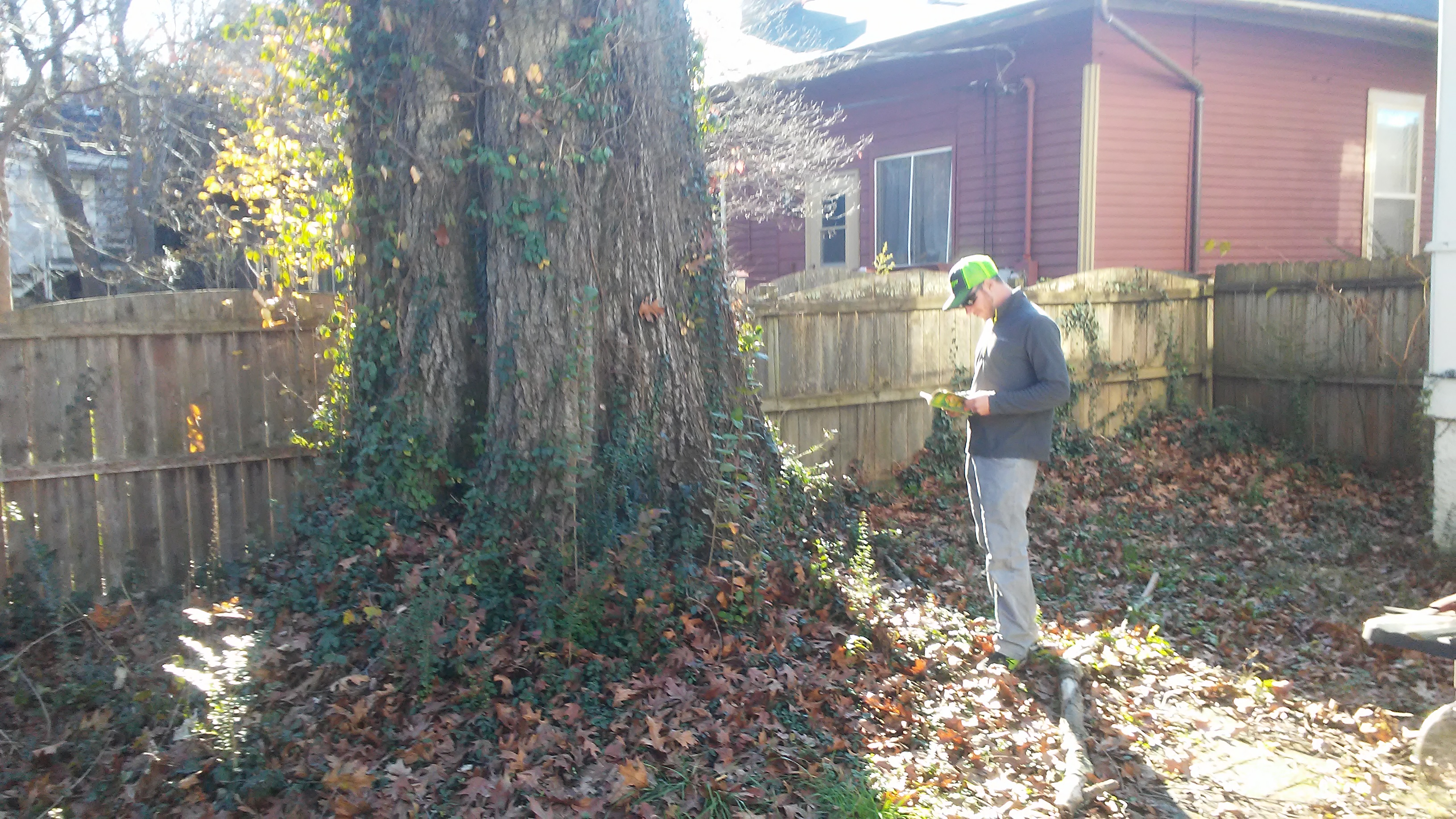 Certified arborist Justin Rome with Woodland Tree Care stands in sunlight and reads a poem to the Shera-Blair Red Oak